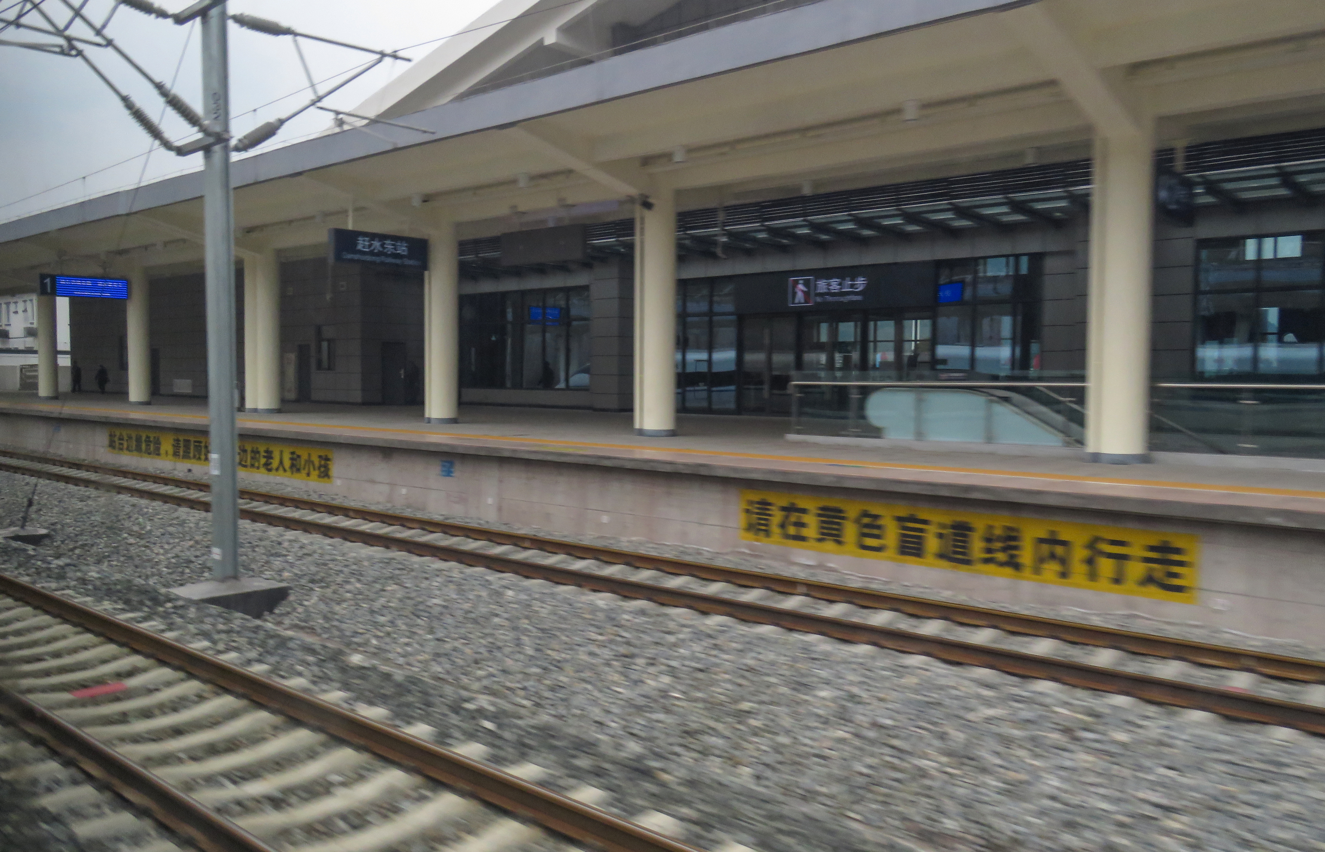 Doesn't stop here as well.